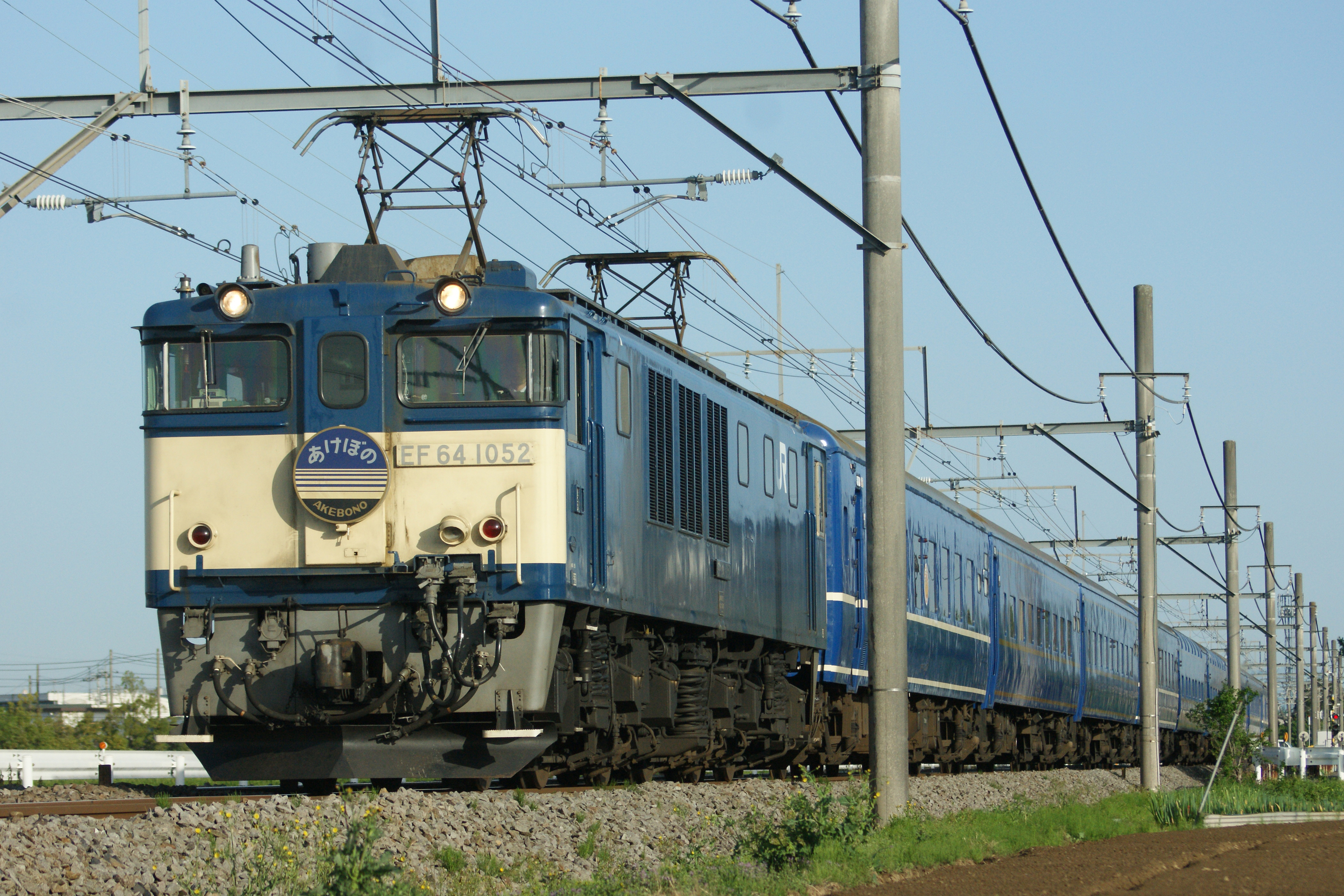 JR East Class EF64-1000 DC electric locomotive EF64-1052 hauling the Akebono limited express overnight sleeping car service